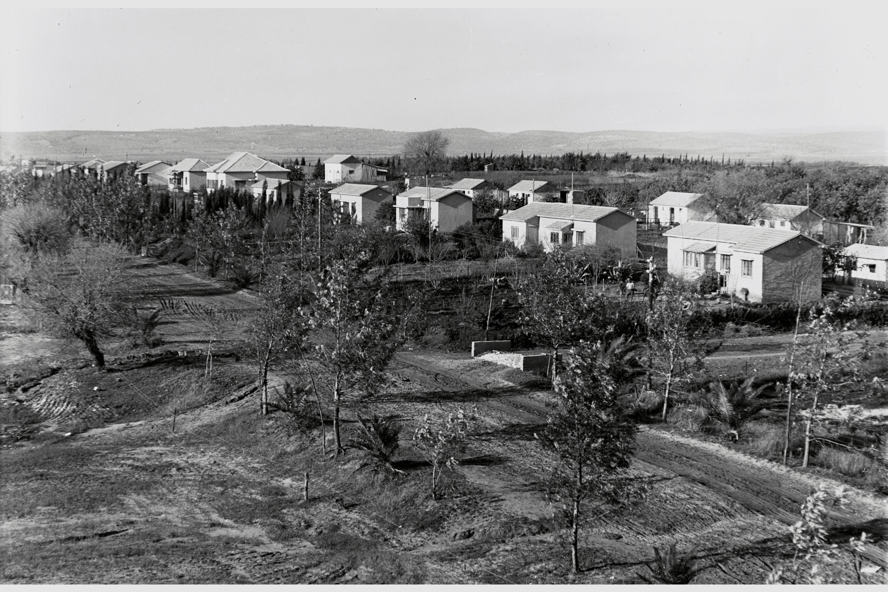 A view of the Pardes Hanna village in the Sharon area, Israel